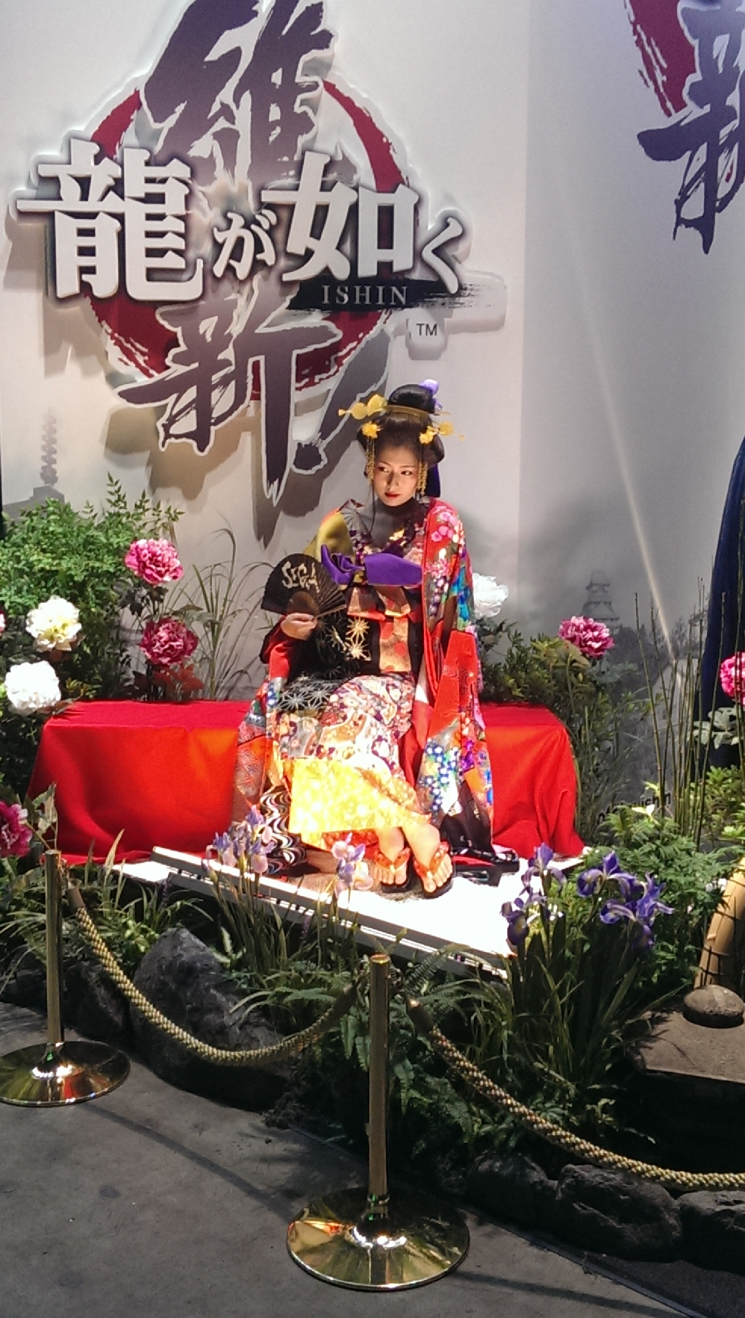 TOKYO GAME SHOW 2013_038